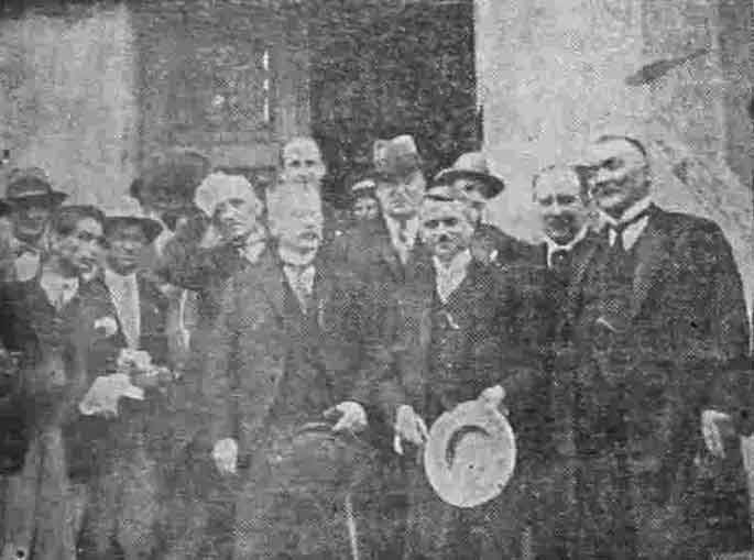 New members of parliament after swearing Oath (Yugoslavia, 1927)